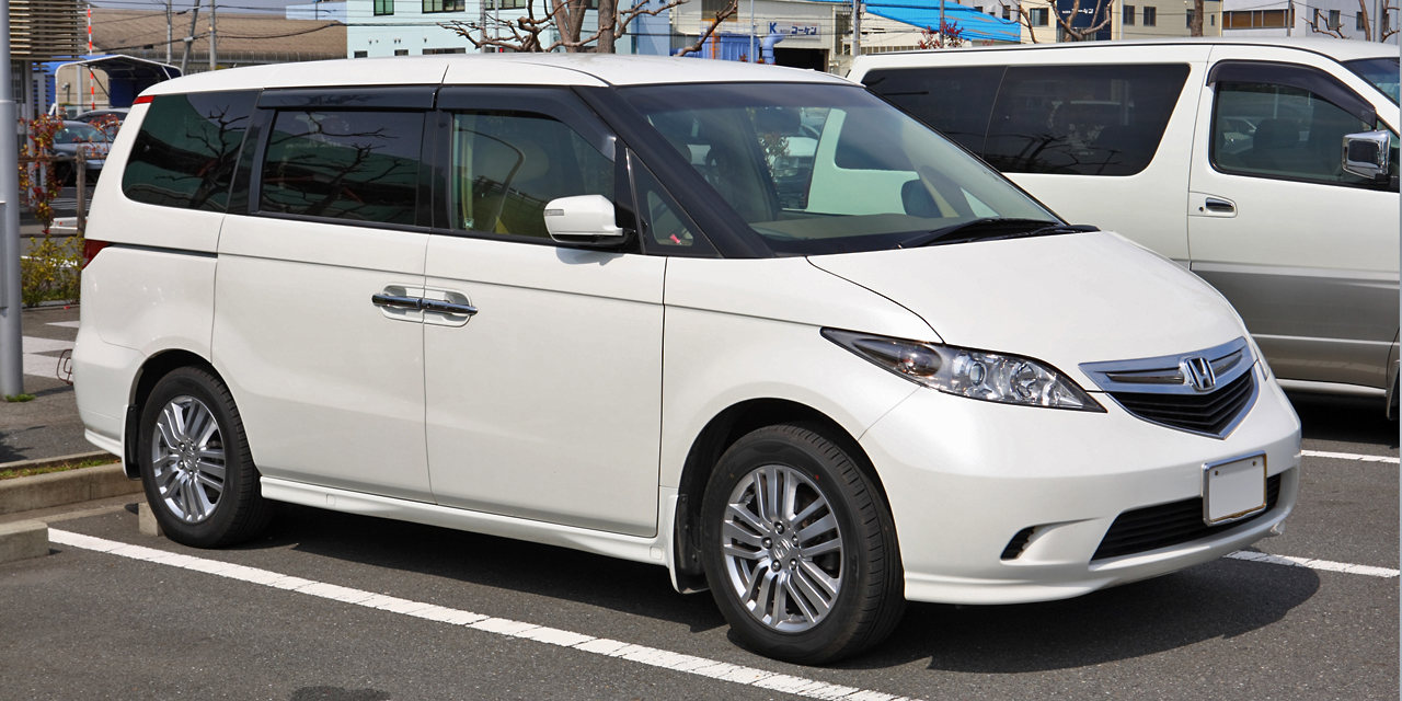 Honda Elysion ( RR1 )